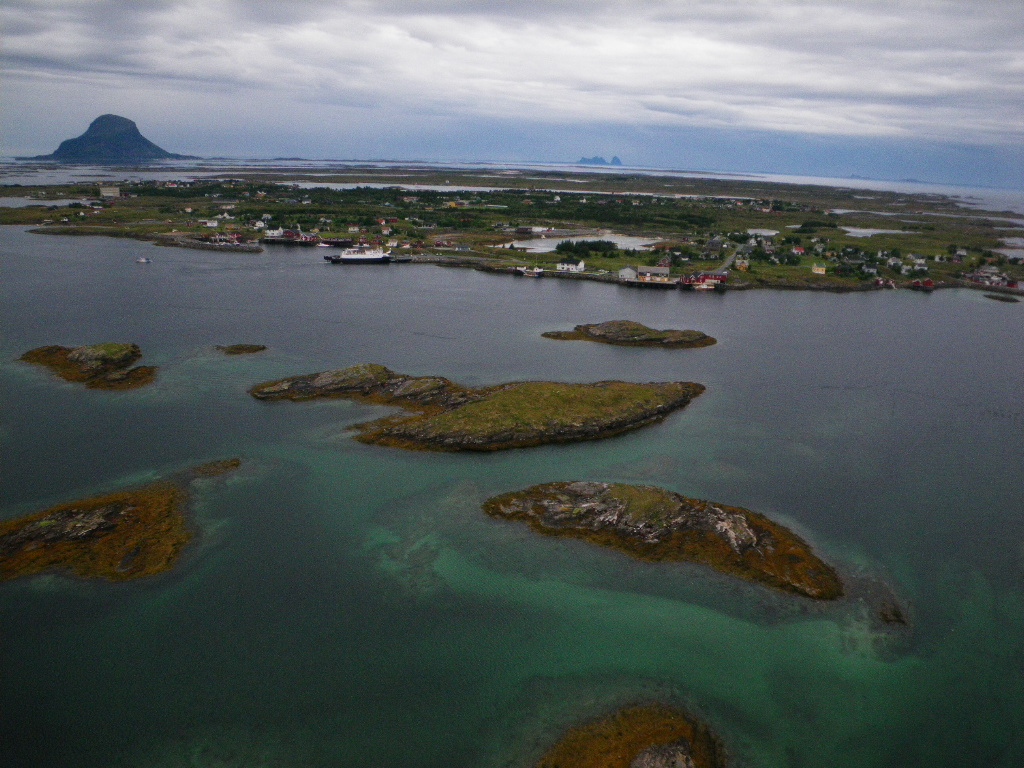 Sleneset in Lurøy, Norway. Norway is really becoming crowded. So I moved off-shore. Lots of desolate islands here. Kapping is also easier here, no bloody mountains. 61'21.43 12'37.38